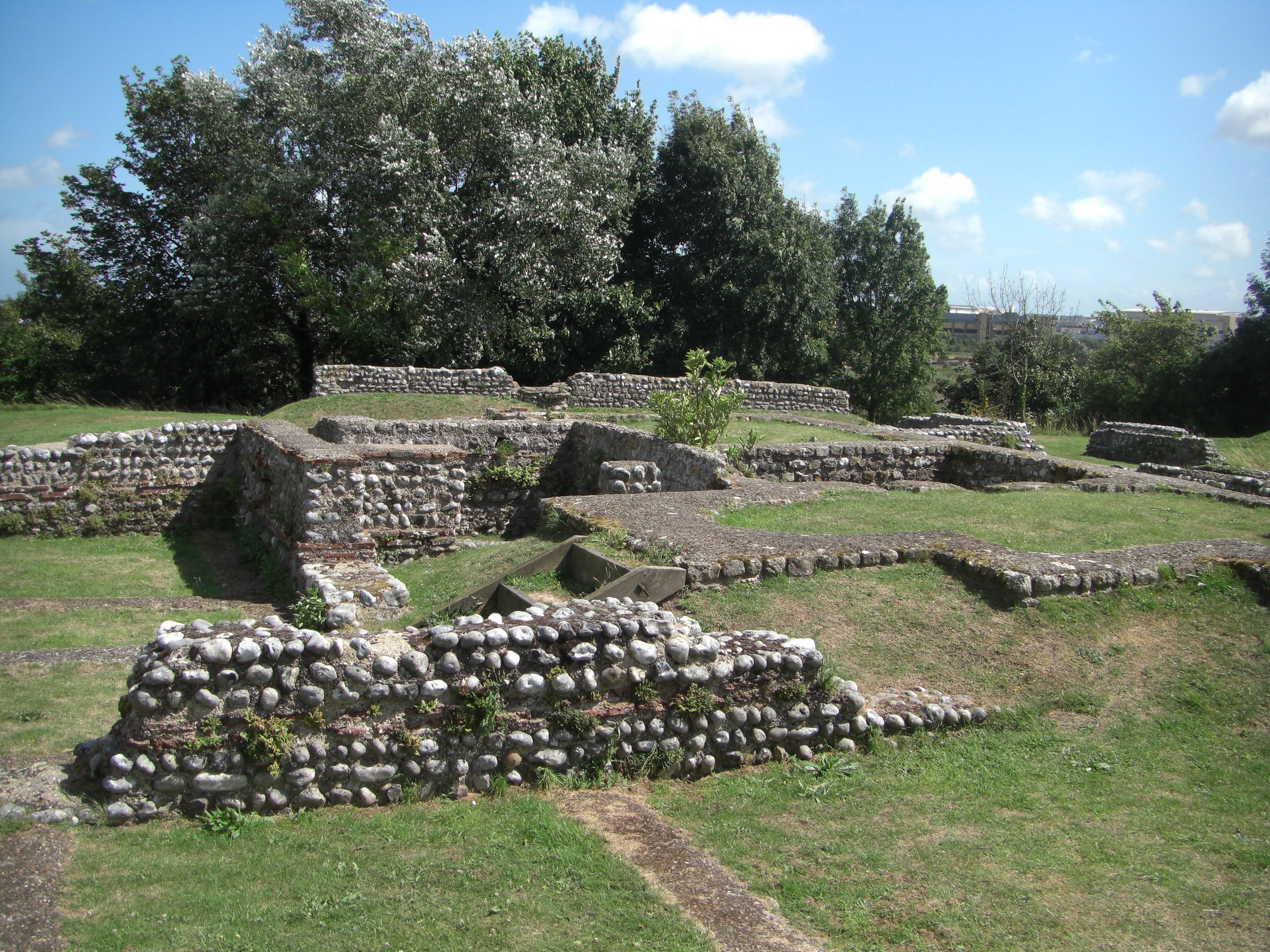 An image of Richborough Roman Fort.